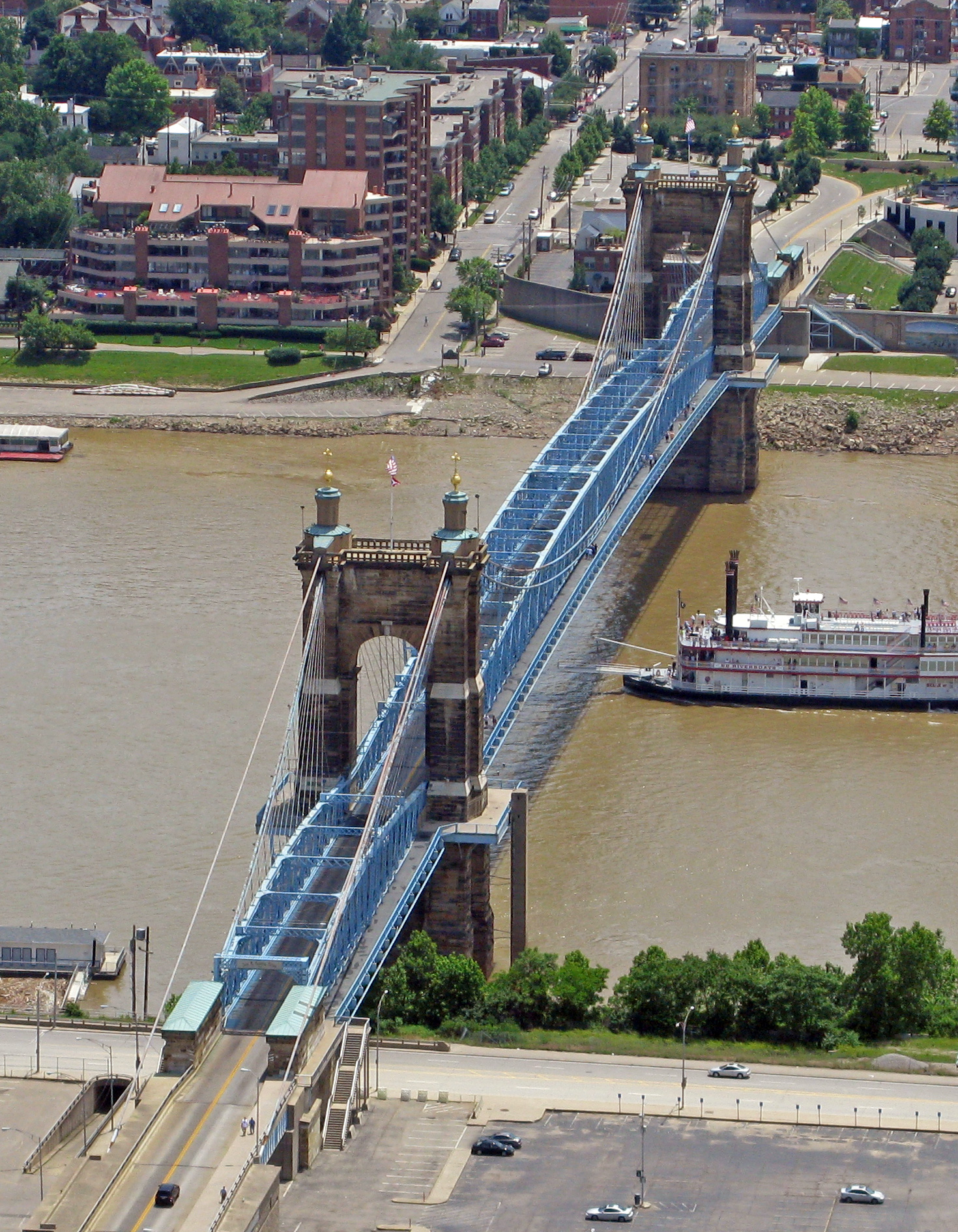 Aerial view of the John A. Roebling Suspension Bridge in Cincinnati, Ohio.